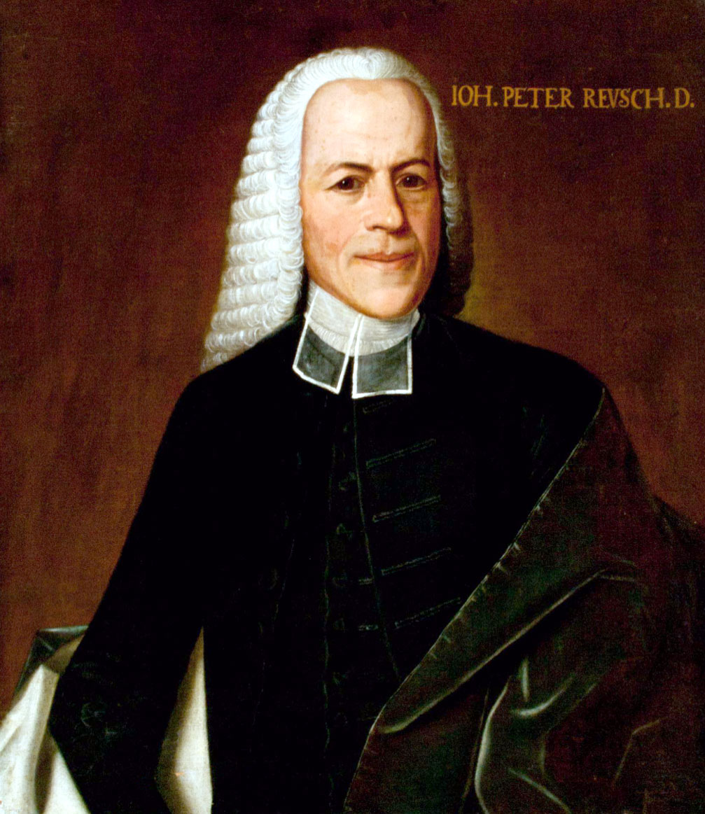 Johann Peter Reusch (1691-1758) german Protestant theologian